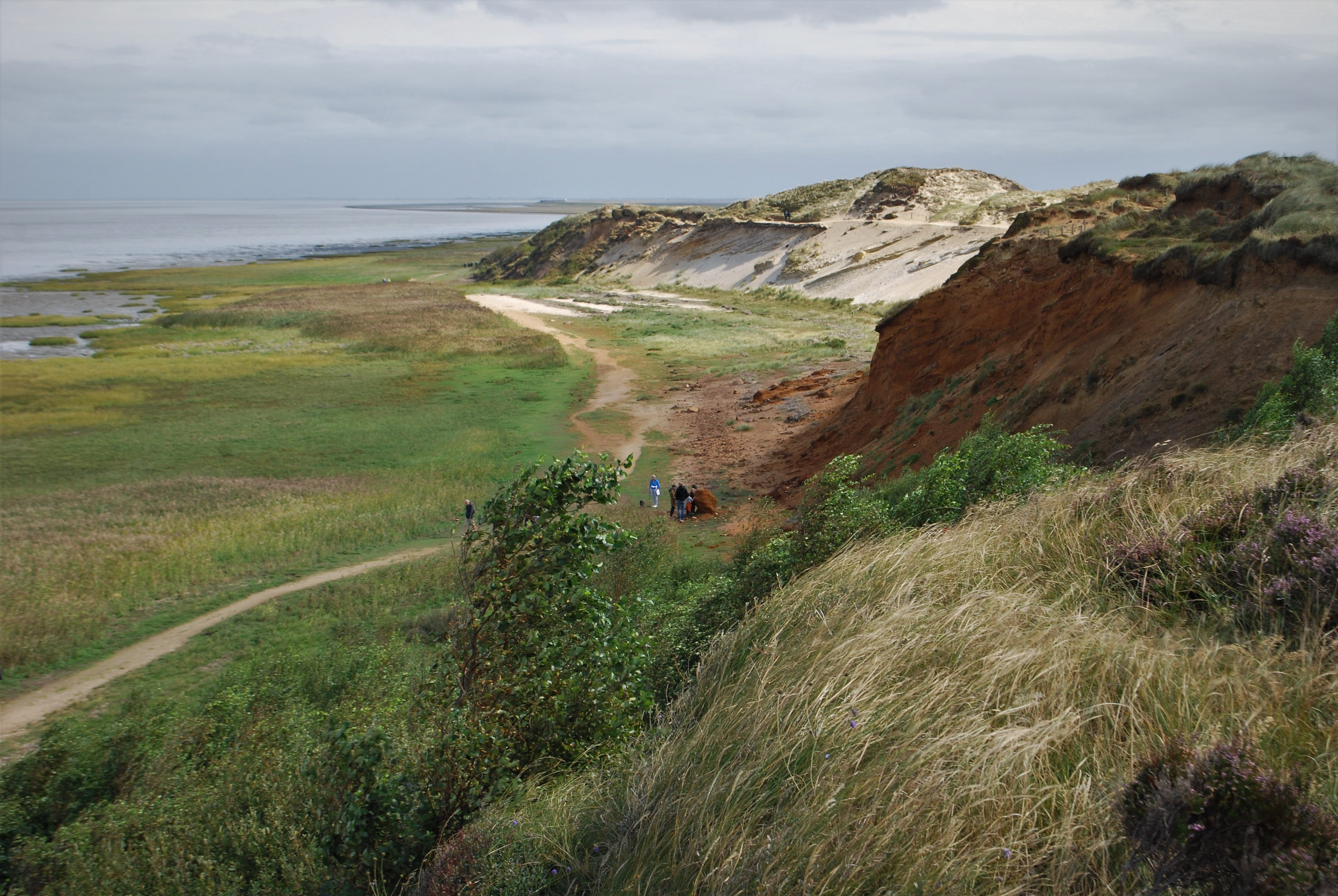 Morsum-Kliff on the island Sylt, Germany". It stretches for around 1.8 kilometres along the northeastern coast and rises to a height of up to 21 metres. The Kliff is made up of various layers of soil.